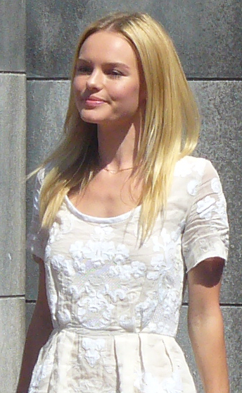 Portrait of actress Kate Bosworth (Part of the picture Image:SupermanRedBull.jpg)